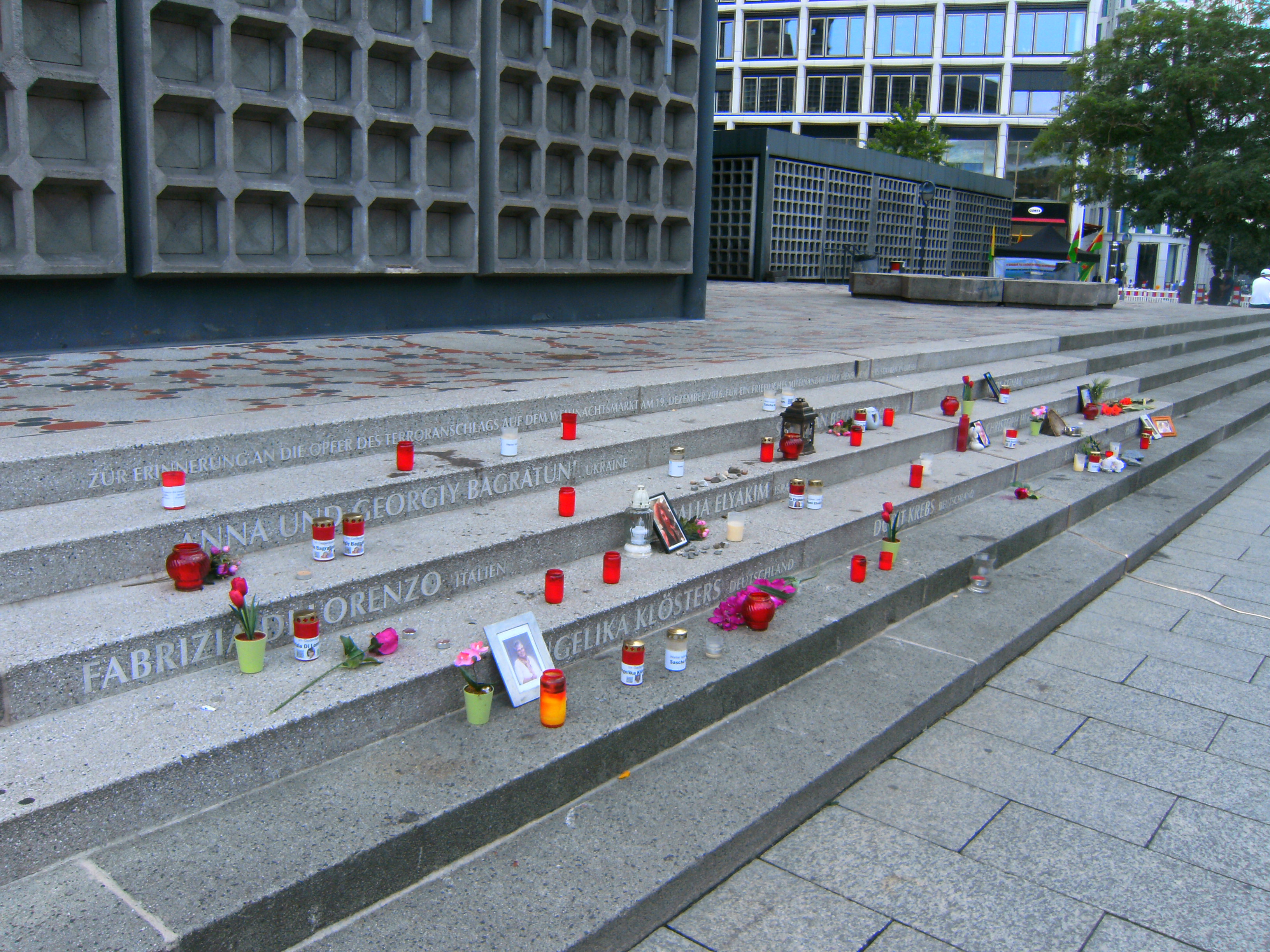 Berlin, Kaiser-Wilhelm-Gedächtniskirche: Goldener Riss - memorial of the Christmas Fair attack in Berlin 2016. Names of murdered.